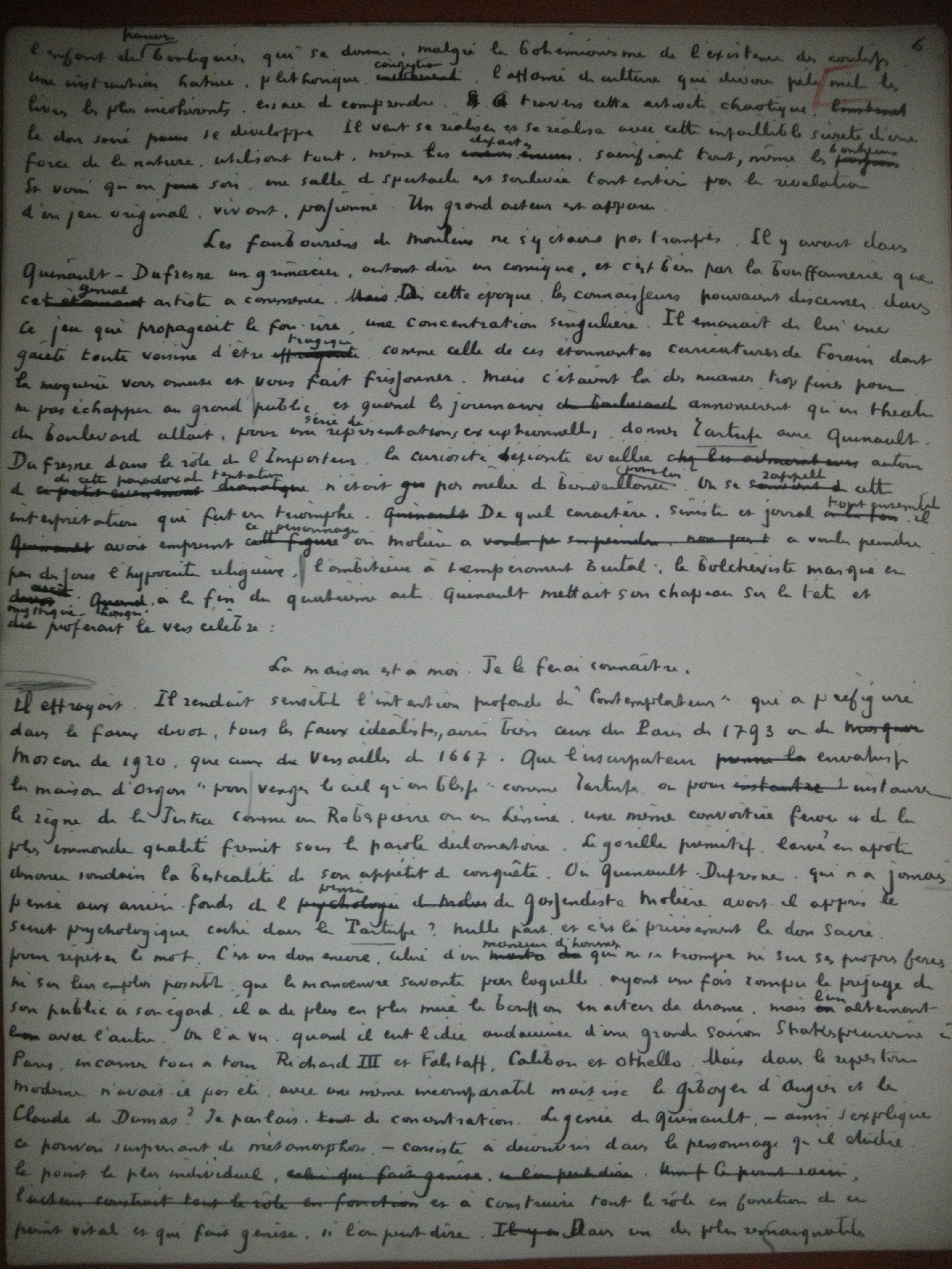 beau rôle 6